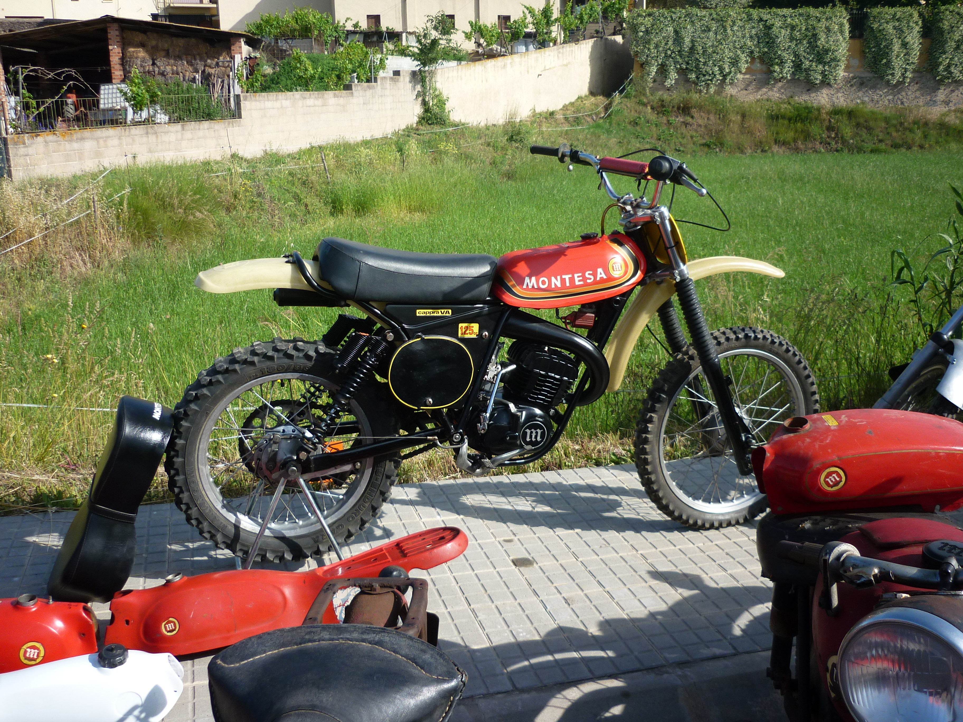 Montesa Cappra VA 125, 1975